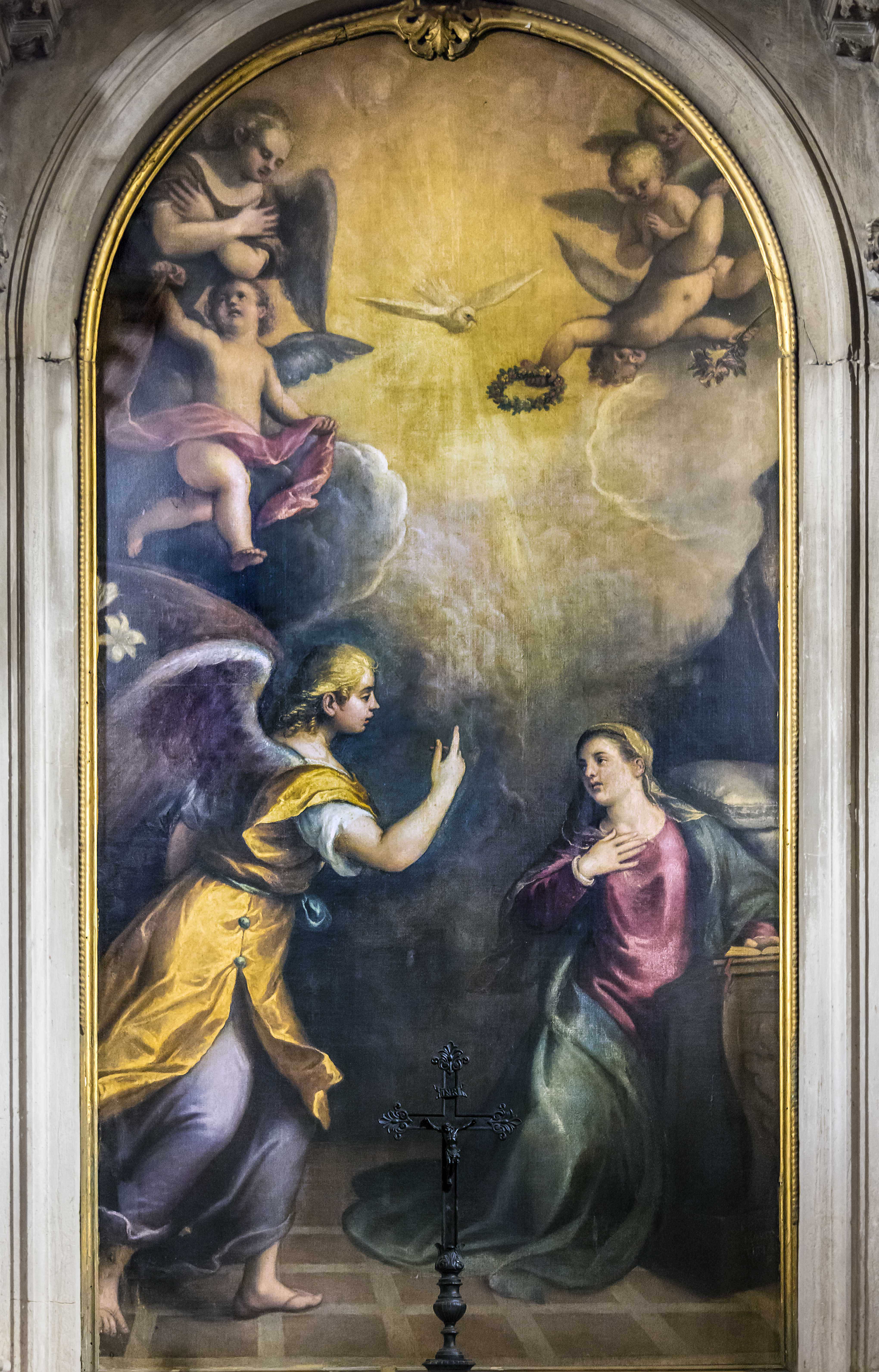 San Giacomo di Rialto Venice- Annunciazione by Marco Vecellio